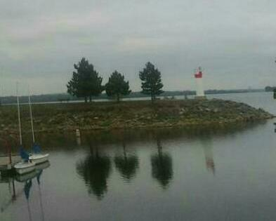 Nepean Sailing Club, Lac Deschenes, Dick Bell Park, Ottawa, Ontario, Canada